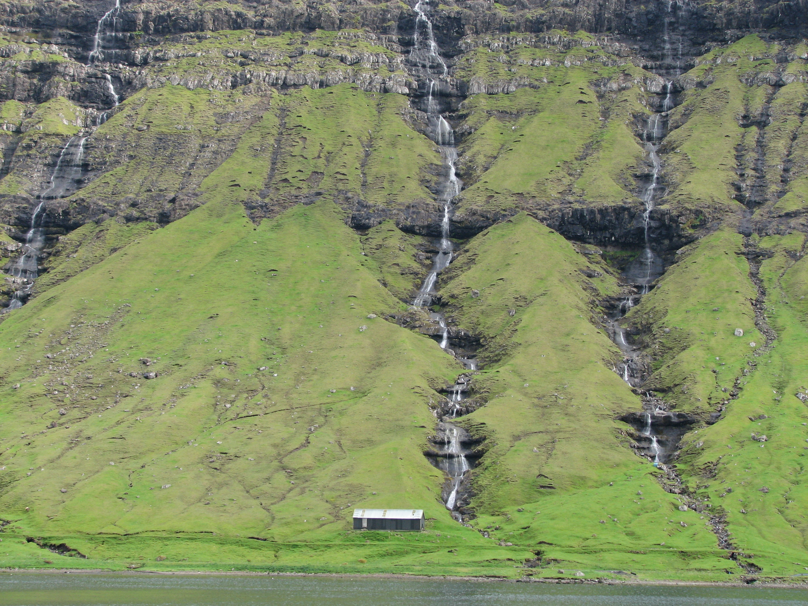 If you do not find a waterfall within 10 meters from the previous one there is something wrong.